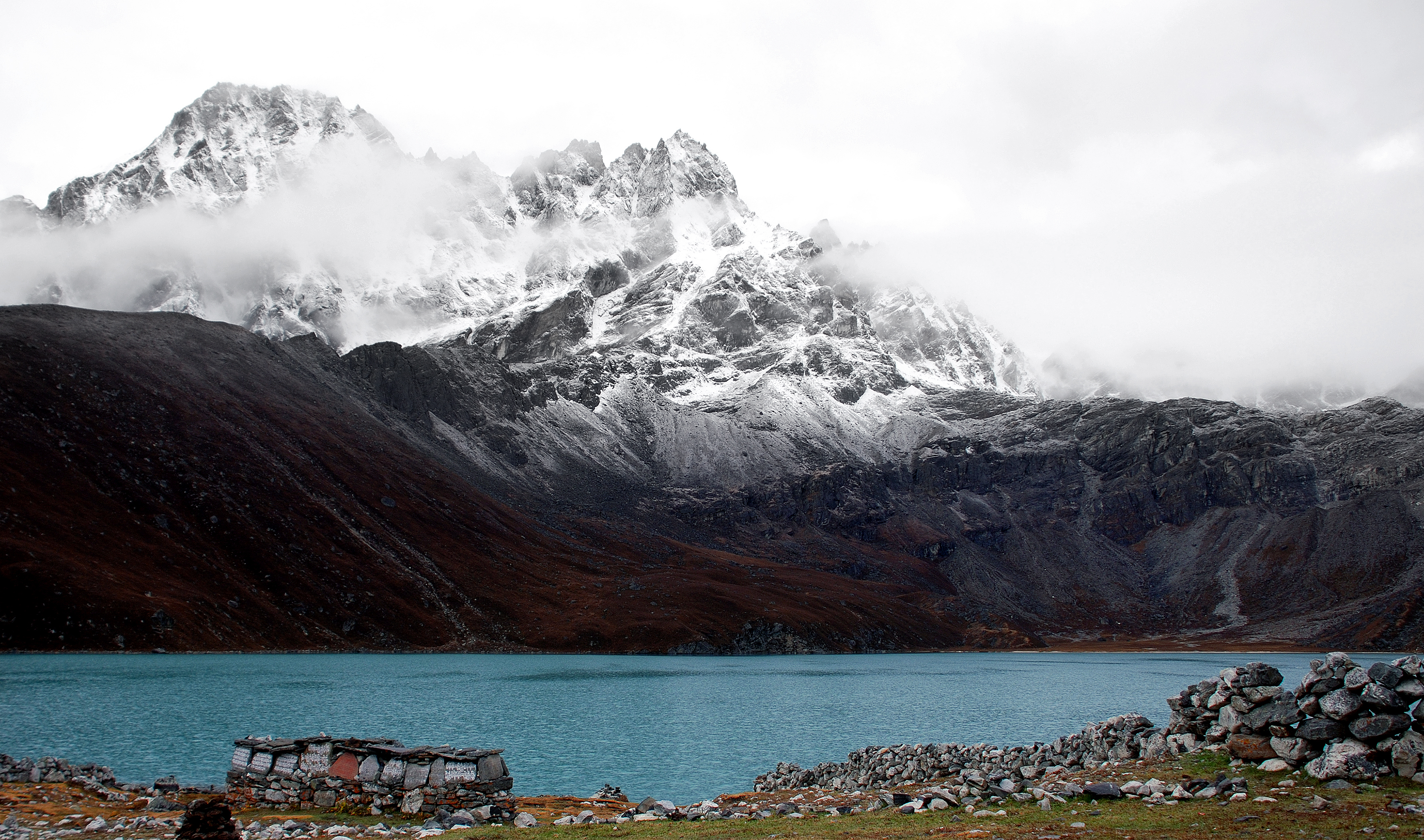 Gokyo Lake in Everest region, Nepal